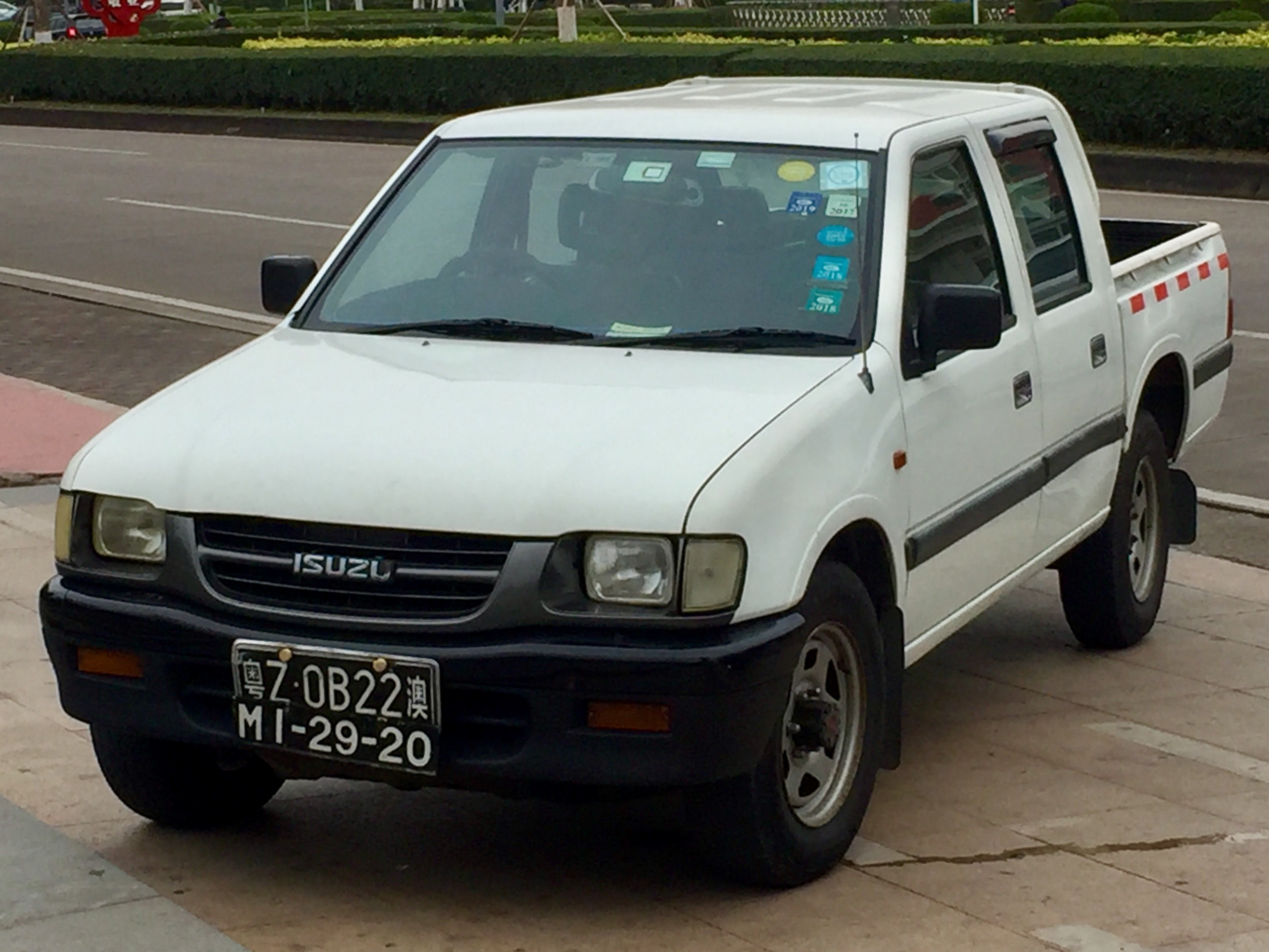 A white Isuzu Rodeo. Taken in Zhongshan, Guangdong province, China. Additional Macau plate for ease of cross-border traveling. 中文（中国大陆）: 一辆五十铃Rodeo。摄于中国广东省中山市。